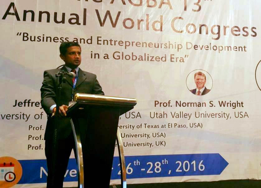 Piyavi Wijewardane Annual World Congress